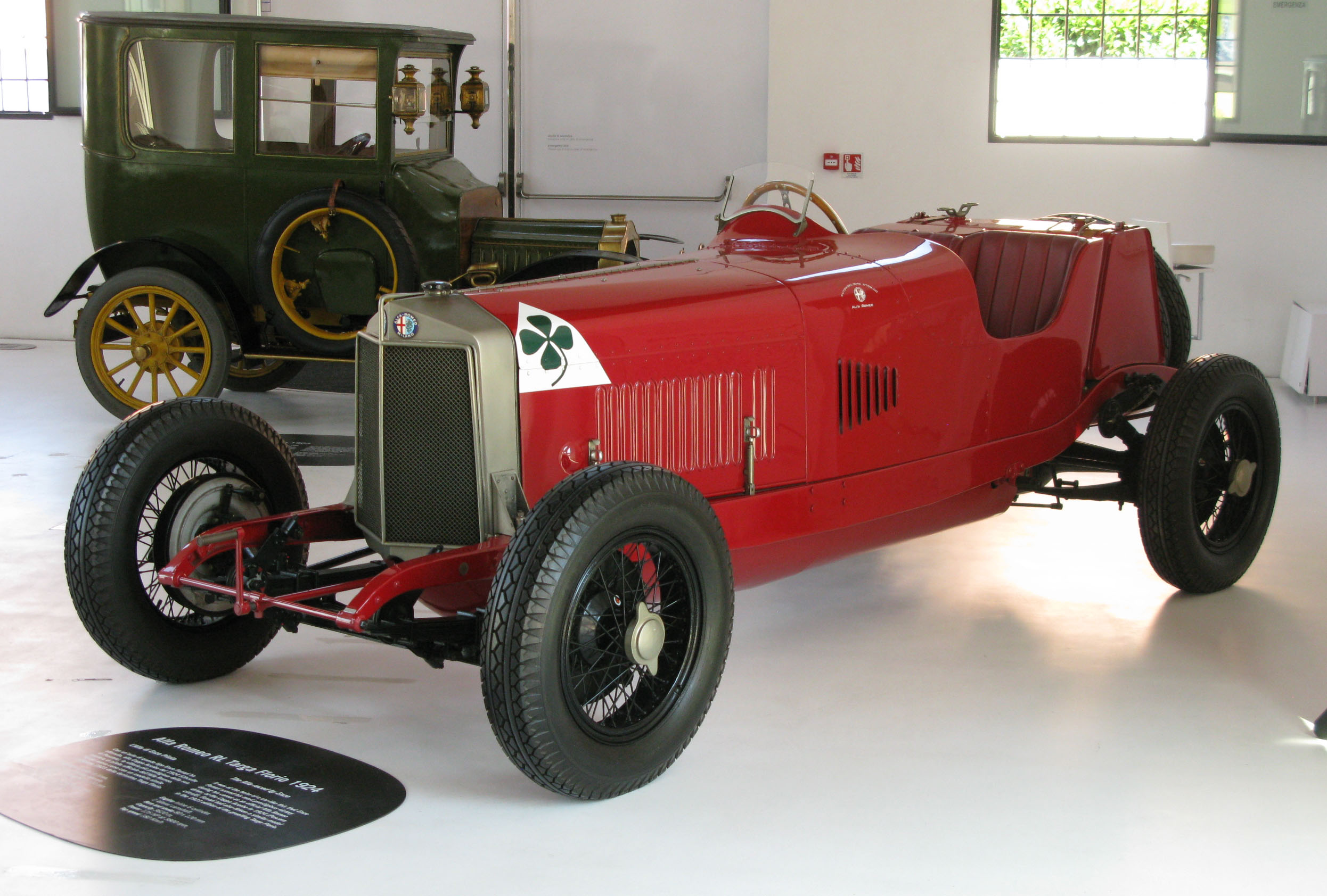 1924 Alfa Romeo RL Targa Florio in the Museo Enzo Ferrari on July 17, 2014. In the back, a 1903 De Dion-Bouton